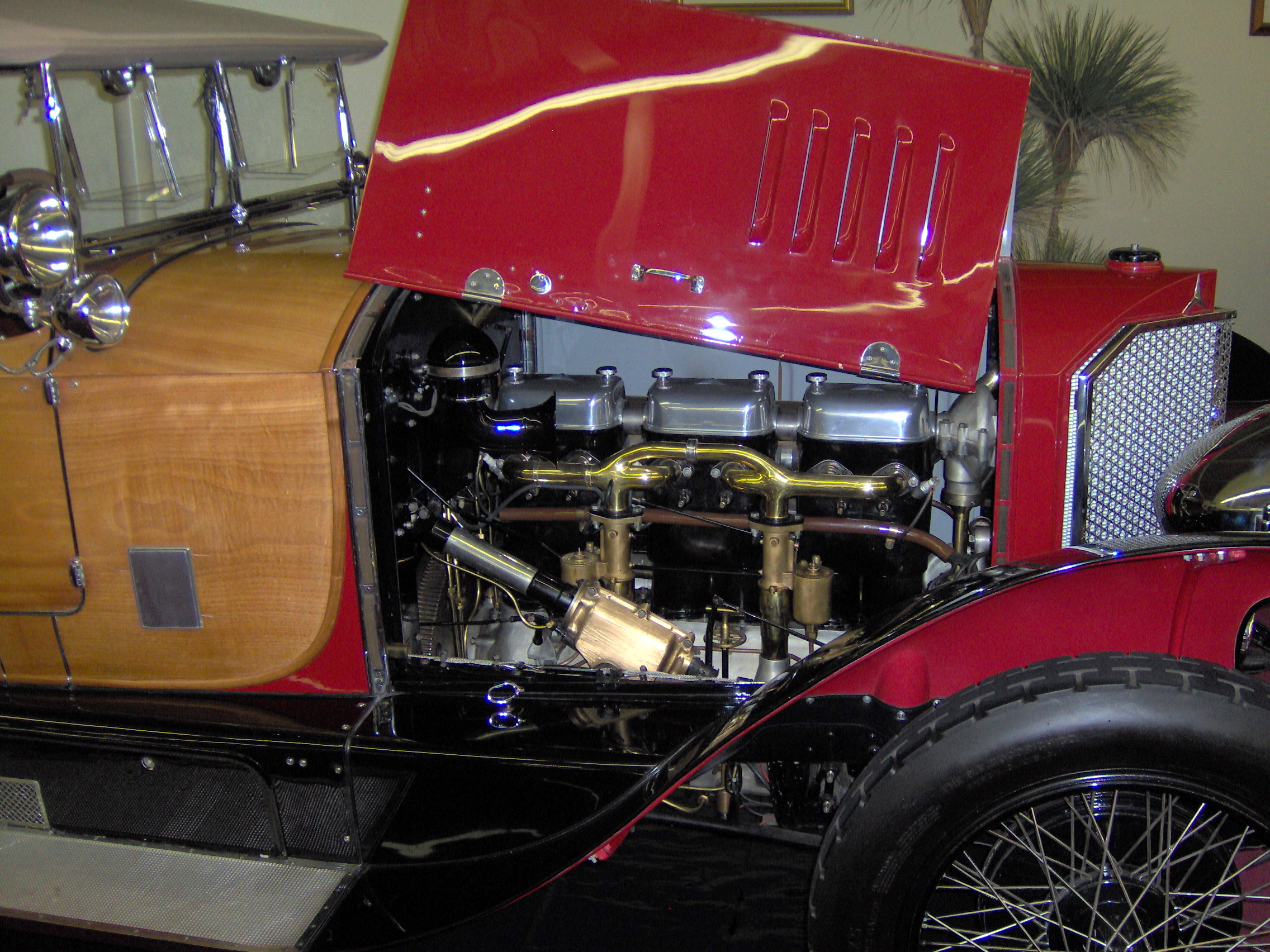 1924 Mercedes 28-95 Wooden Skiff Tourer